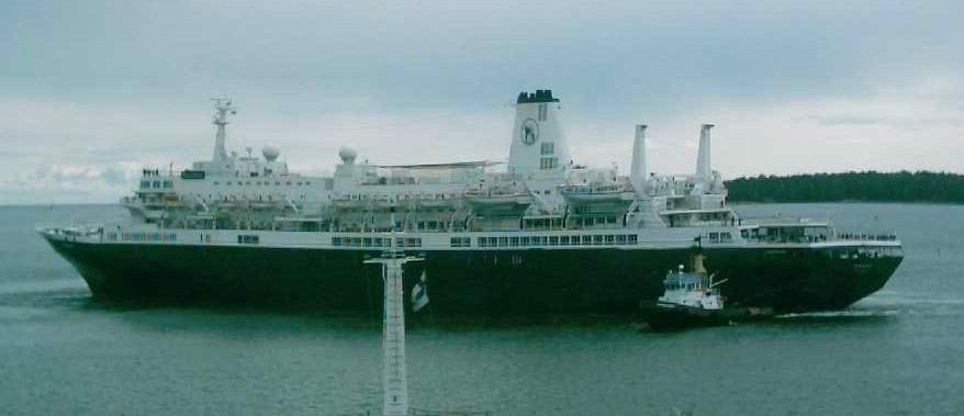 Noordam (1984) towed by unidentified tugboat in Länsisatama, Helsinki 16 June 2003 (flag of Finland on the foremast of Lembitu in the foreground)